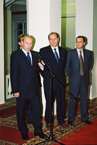 ORENBURG. President Putin talking to journalists after a meeting of the State Council's presidium. With Alexei Chernyshev, Governor of the Orenburg Region, and Sergei Kiriyenko (right), Presidential Envoy to the Volga Federal District.